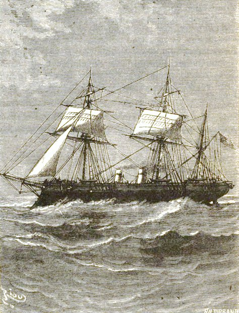 This image was originally featured in the Hetzel edition of 20000 Lieues Sous les Mers, and has also been featured in more recent editions (this particular instance was scanned in a recent edition). The images were originally drawn by Alphonse de Neuville and Edouard Riou. They are now the public domain, since their Droit d'auteur is expired.